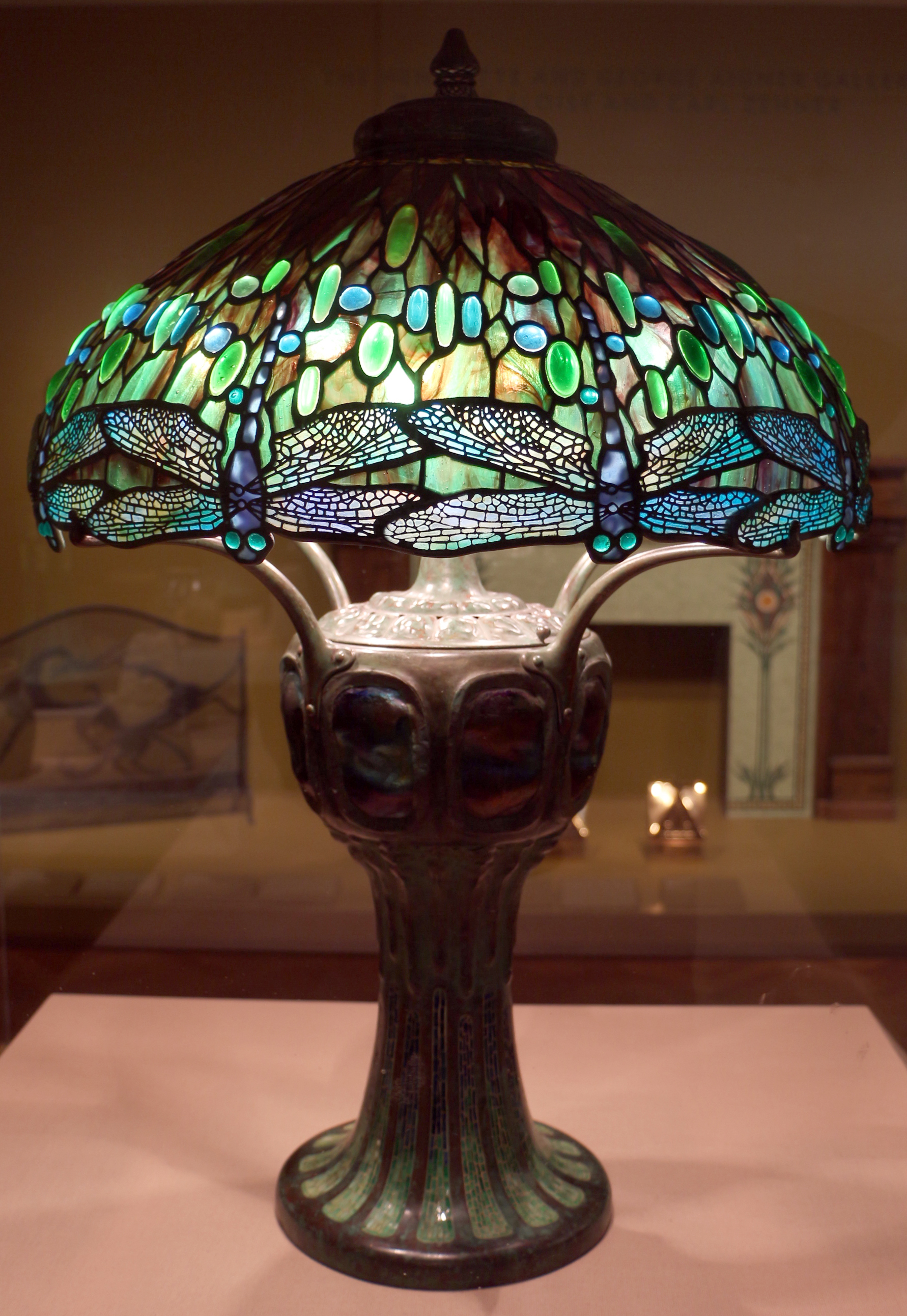 American glassware in the Art Institute of Chicago